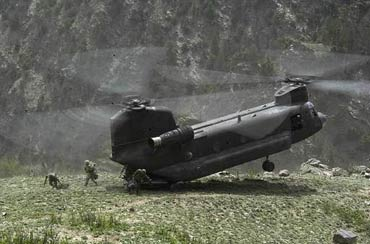 CLIFFHANGER — A CH-47 helicopter drops off coalition force members into the Tora Bora region of Afghanistan in support of Operation Torii. The intelligence-gathering operation involved more than 400 members from the U.S., Canada and Afghanistan. Photo by Staff Sgt. Jeremy T. Lock, USAF